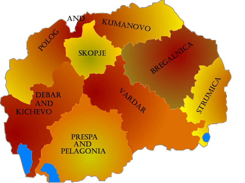 Map of the seven old dioceses of Macedonia (1967-2013)